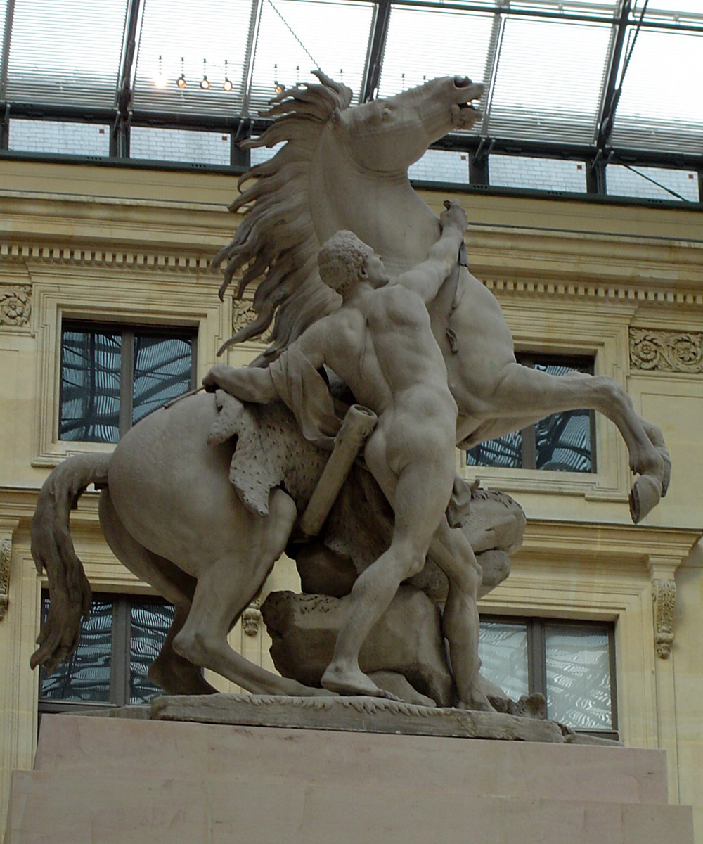 One of the so-called Marly Horses. Carrara marble, 1739-1745. Commissioned in 1739 for the park of the castle of Marly, the two sculptures were transfered in 1794 to the entrance to the Champs-Élysées in Paris and replaced by cement copies in 1985.